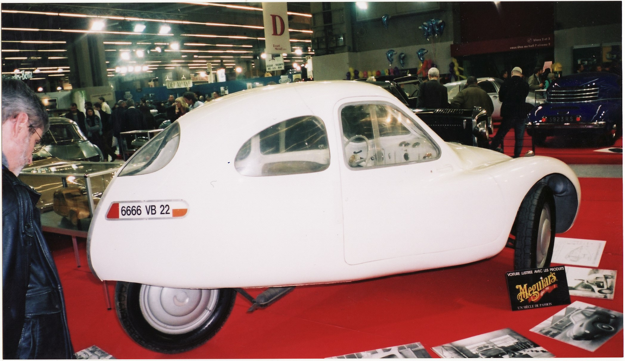 Designed by Andreau. Intriguing. Spotted at Retromobile 2005